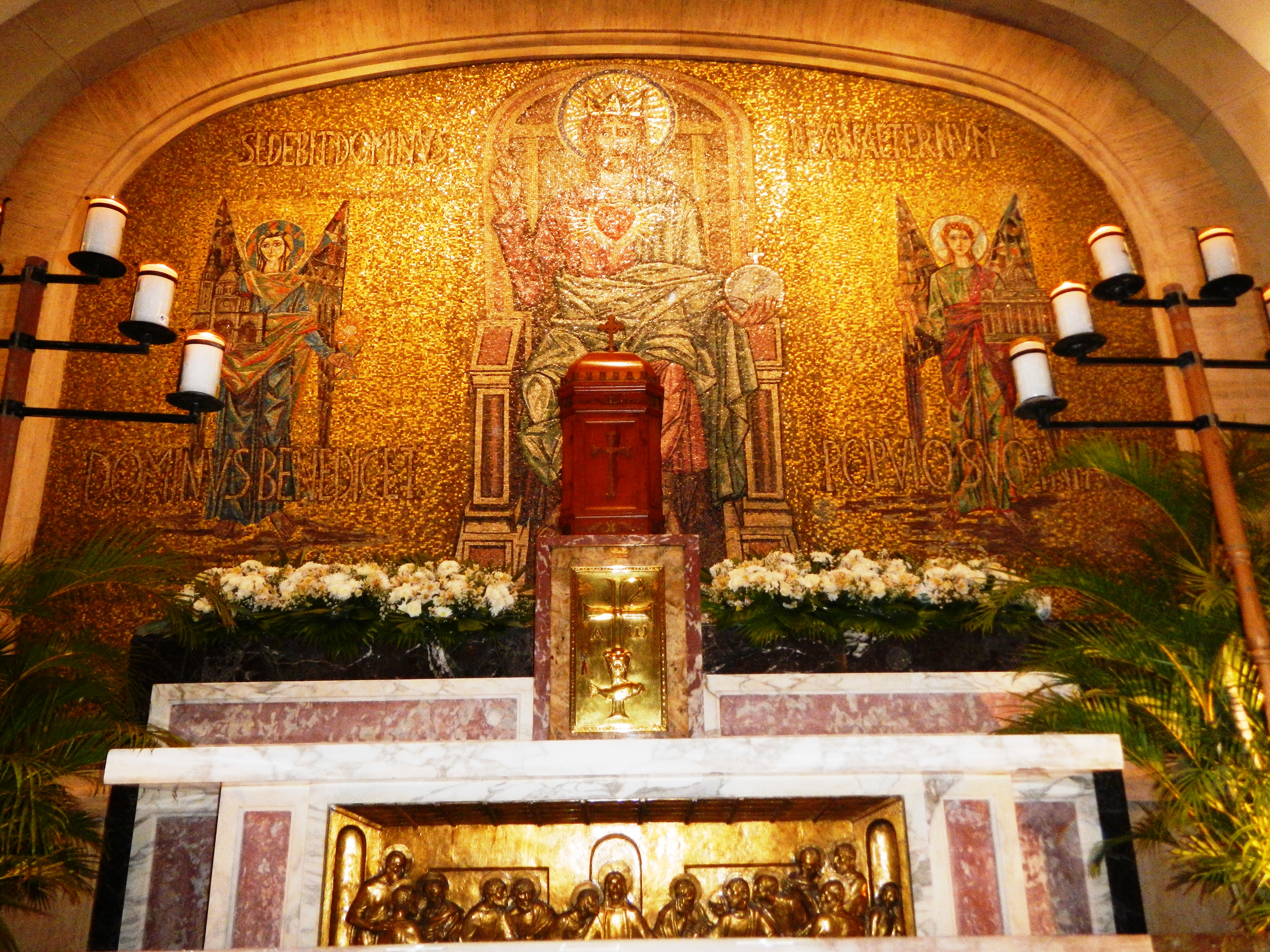 Manila Cathedral, Altar of Repose - Blessed Sacrament, 2014 Maundy Thursday, in the Philippines: Mass of the Lord's Supper and Chrism Mass [1] including Washing of Feet by Cardinal Luis Antonio Tagle in Manila Cathedral).